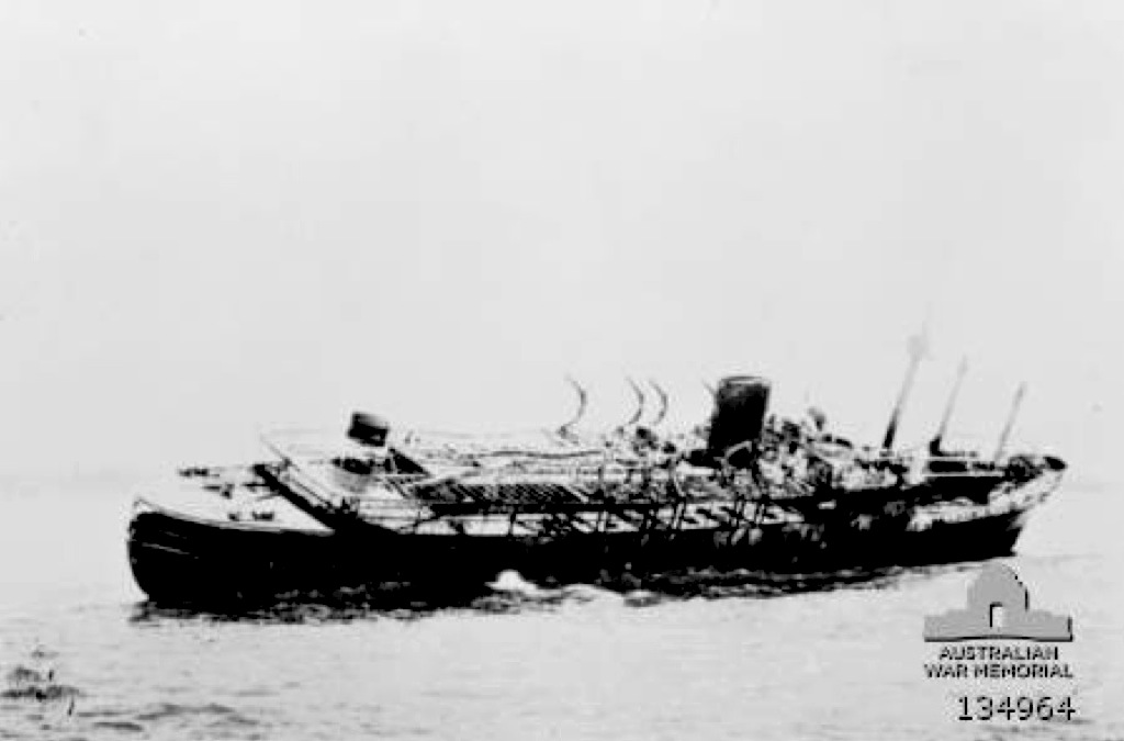 C.1942-02. The merchant ship Don Isidro, heavily damaged by bombs during the first Japanese air raid on Darwin 1942-02-19, was so badly burnt out that she was beached and abandoned aground near Melville Island.. "Australian War Memorial notice: Copyright expired - public domain—This term describes material held in the National Collection that is clearly out of the period of copyright protection. Material that has passed out of the period of copyright protection is known as being in the “public domain” and is free of known copyright restrictions."